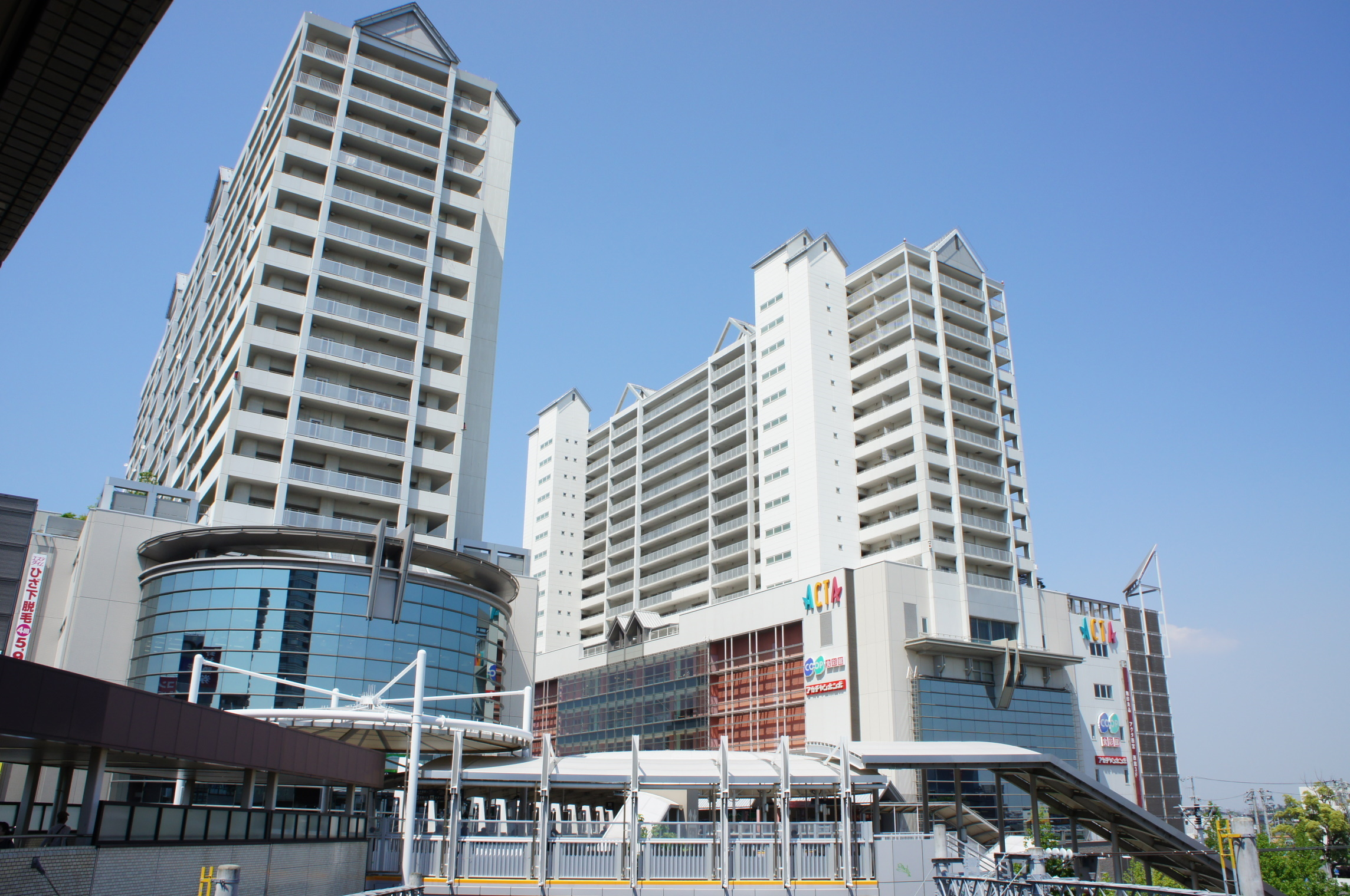 ACTA NISHINOMIYA